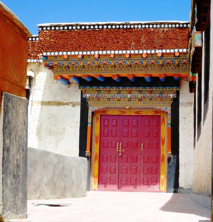 Photo taken on recent trip to Ladakh